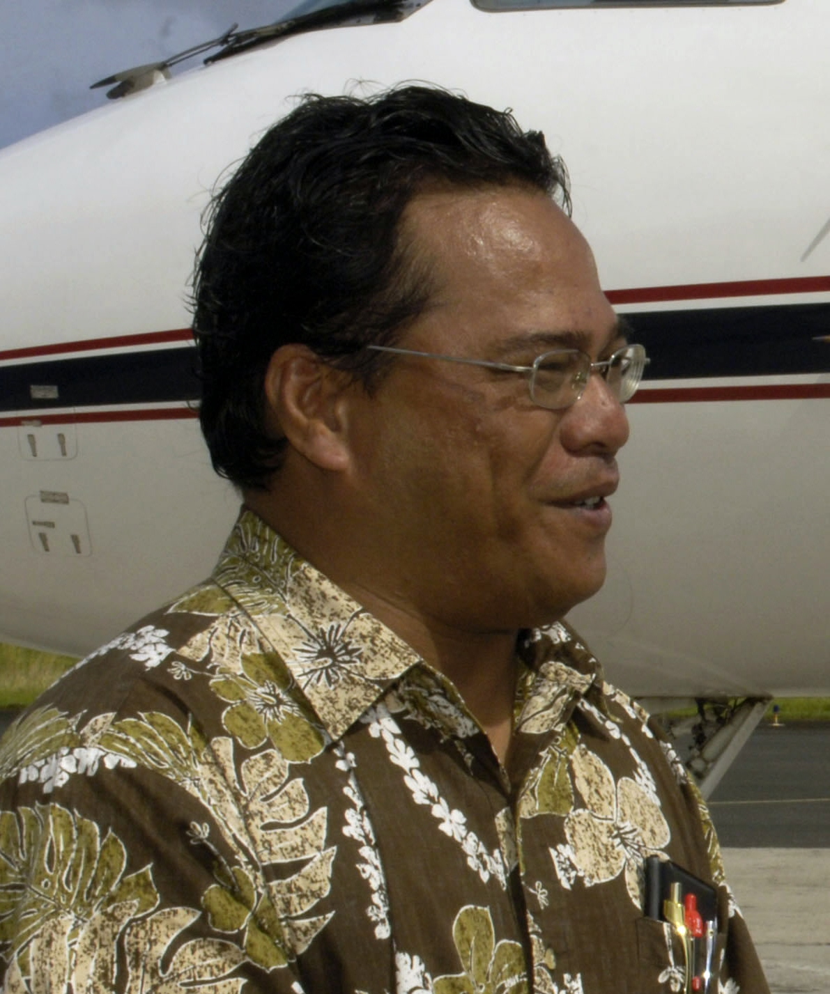 Chuuk State Governor Wesley Simina. (cropped from original)